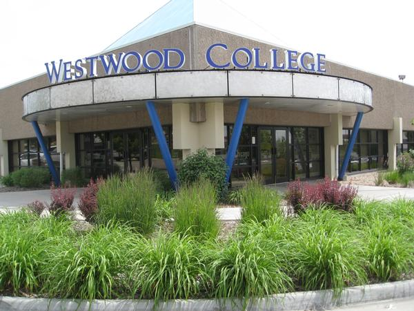 Westwood College has two campuses in metro Denver, including its Denver North Campus shown in this photo